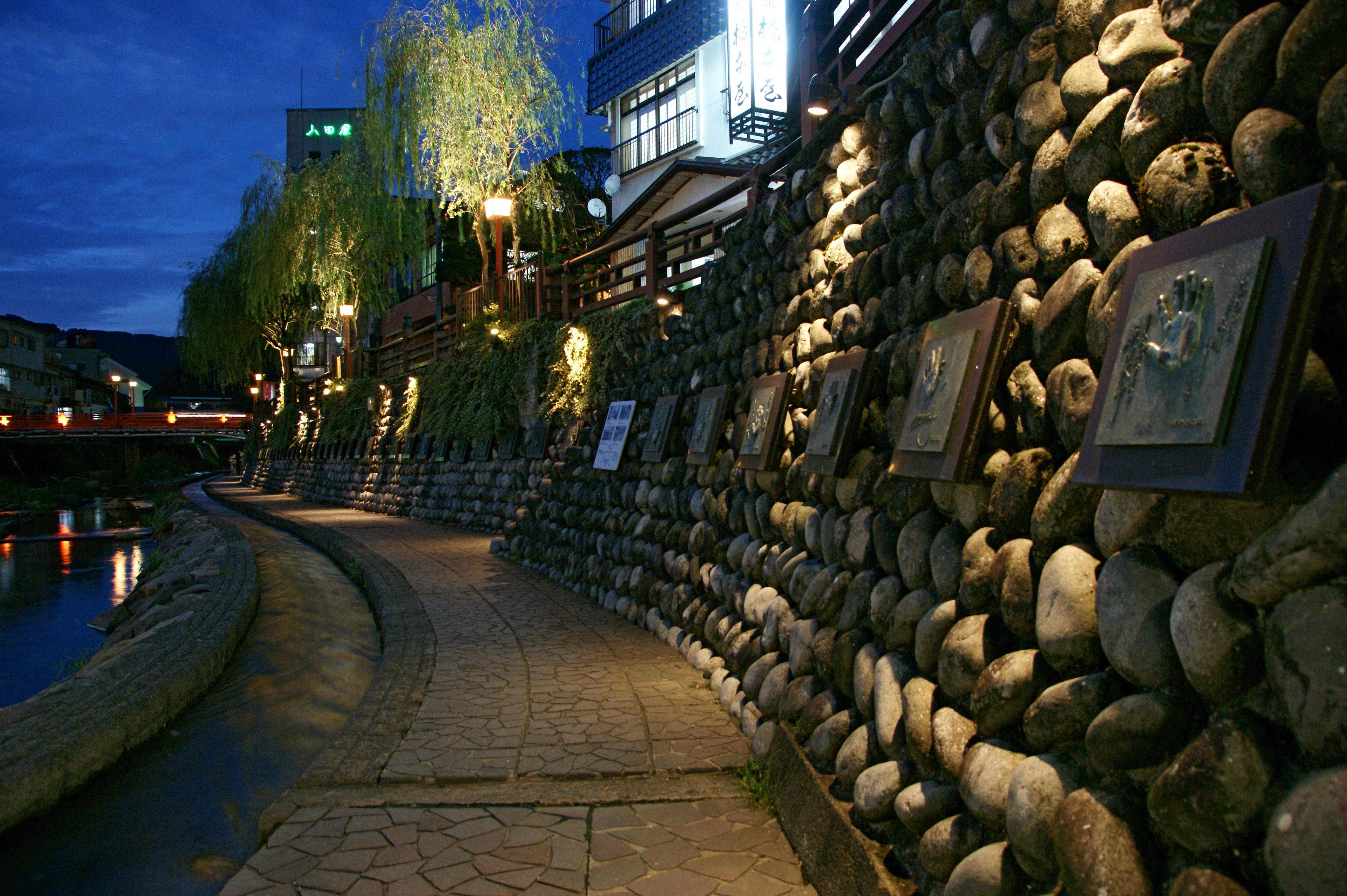 Yumura Onsen, Shinonsen, Hyogo prefecture, Japan